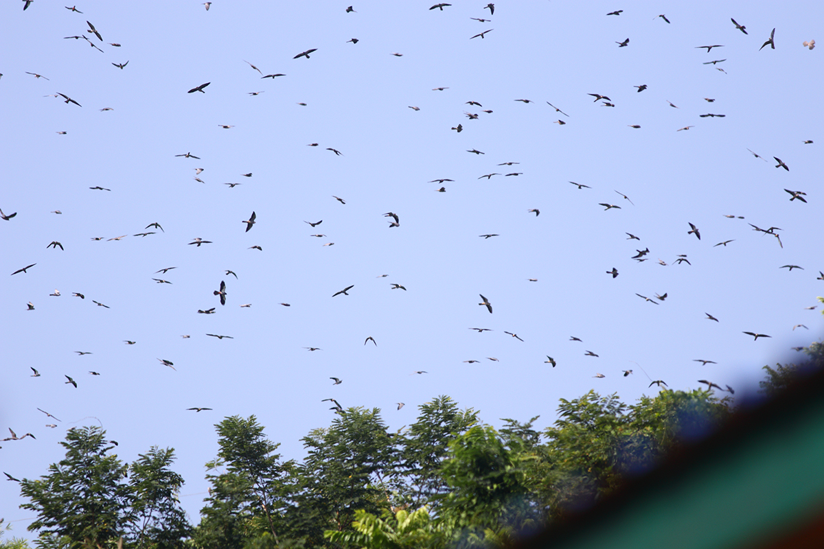 Amur Falcon Congregation Pangti Nagaland India October 2018.